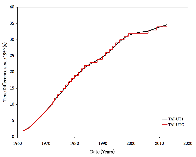 This represents a graph of the time difference between UT1 (universal time based on Earth's rotation) and TAI (based on atomic clocks), as well as UTC (coordinated universal time, which includes leap seconds) and TAI. The graph is based on data from